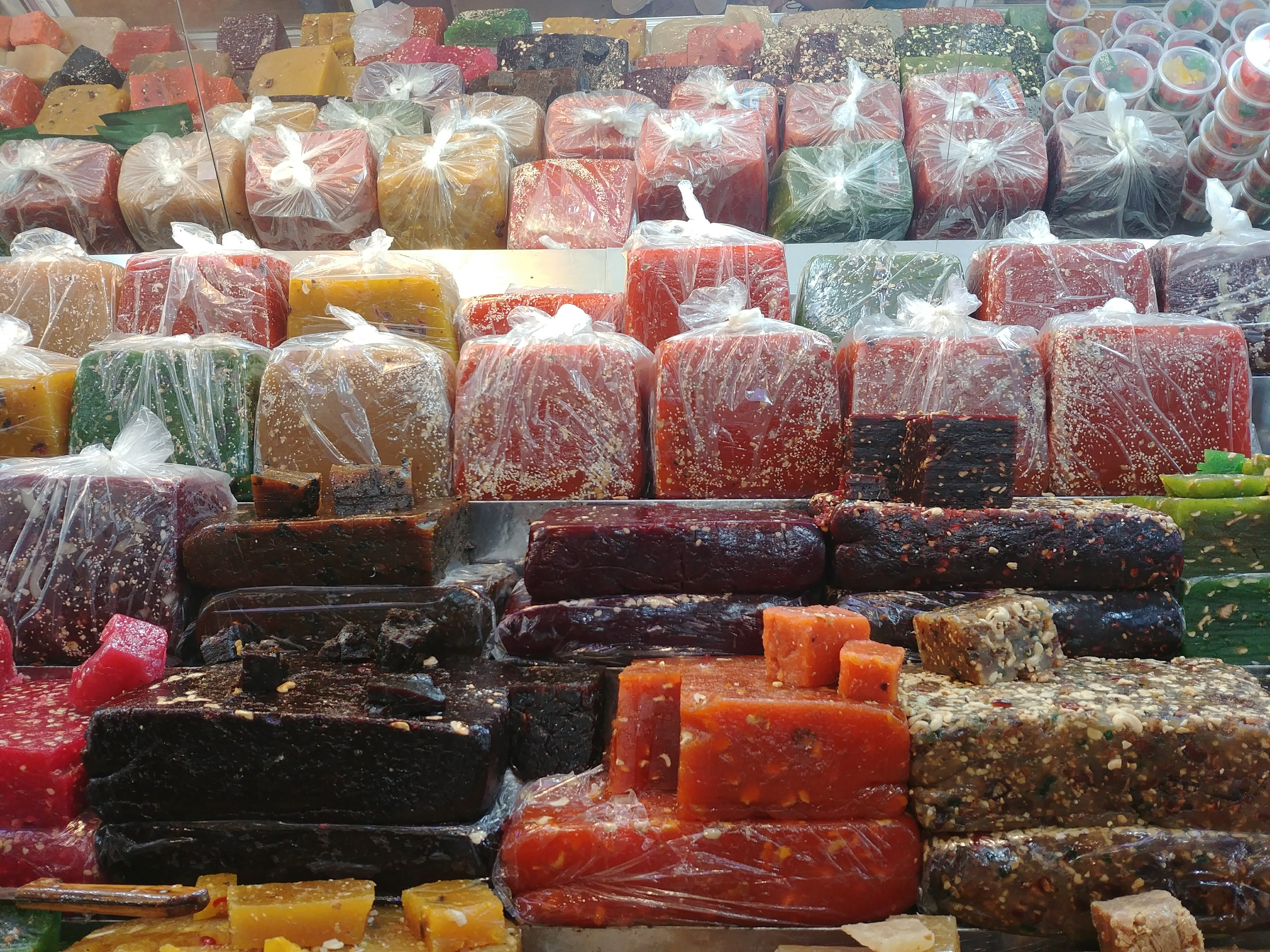 Kozhikode Halwa in a shop